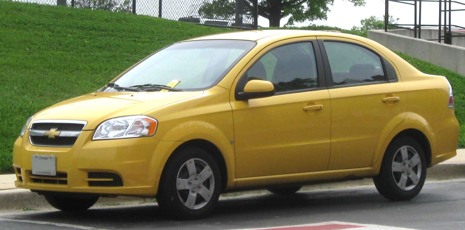 2007-2009 Chevrolet Aveo photographed in College Park, Maryland, USA.